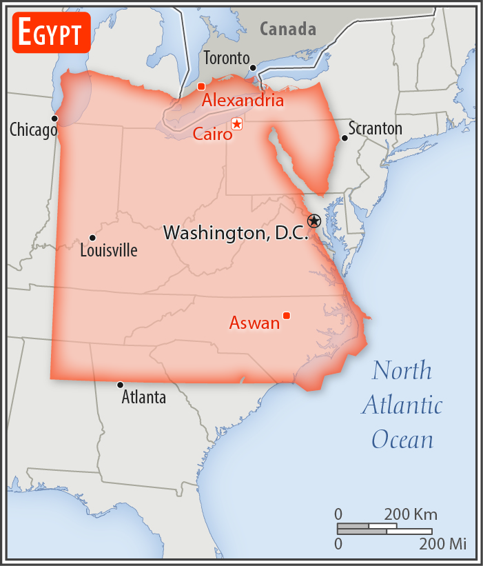 Comparison of the areas of two country. The area of Egypt with biggest cities (red) overlay the area of the United States of America (gray background).